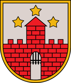 Coat of arms of Aizpute Municipality, Latvia.